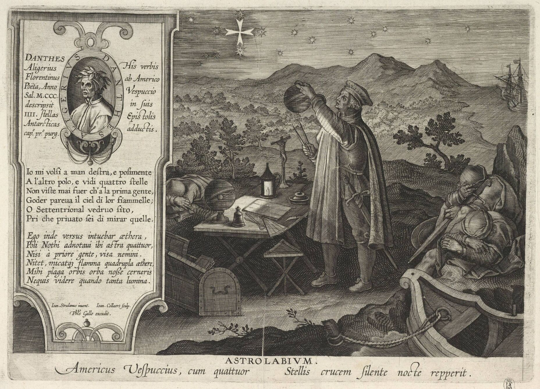 Pate 19 from Nova Repertae (c.1600), entitled "The Development of the Mariners Astrolabe and the Discovery of America by Amerigo Vespucci". Depiction of Amerigo Vespucci finding the Southern Cross constellation with an "astrolabium". Event described by Vespucci in his Letter to Lorenzo di Pierfrancesco de' Medici (dated 1500) as happening during his 1499 voyage to the Indies. Print includes Vespucci's own allusion to a relevant passage in Dante's Purgatorio (passage). Although this is one of the first recorded references to the use of the mariner's astrolabe in navigation, the artist seems unfamiliar with that instrument, and has Vespucci holding a spherical version instead; there seems to also be a quadrant on the table (also reported used by Vespucci). N.B. - this 1500 letter was not known to exist until discovered by Bandini in 1745! Artist either knew of it already, or may have drawn speculatively from a very brief reference to astrolabe in Vespucci's letter published in 1505 Mundus Novus (passage, although, unlike in the 1500 letter, there is no reference to the Southern Cross nor Dante here). Etching by Jan Collaert, based on Stradanus, 1591.